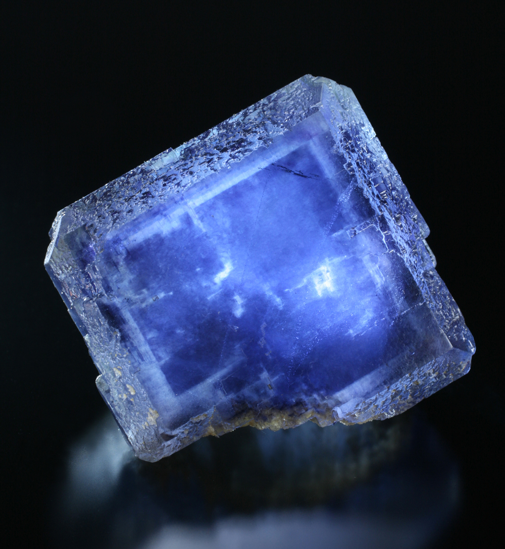 Blue fluorite cube from La Collada, Asturias, Spain